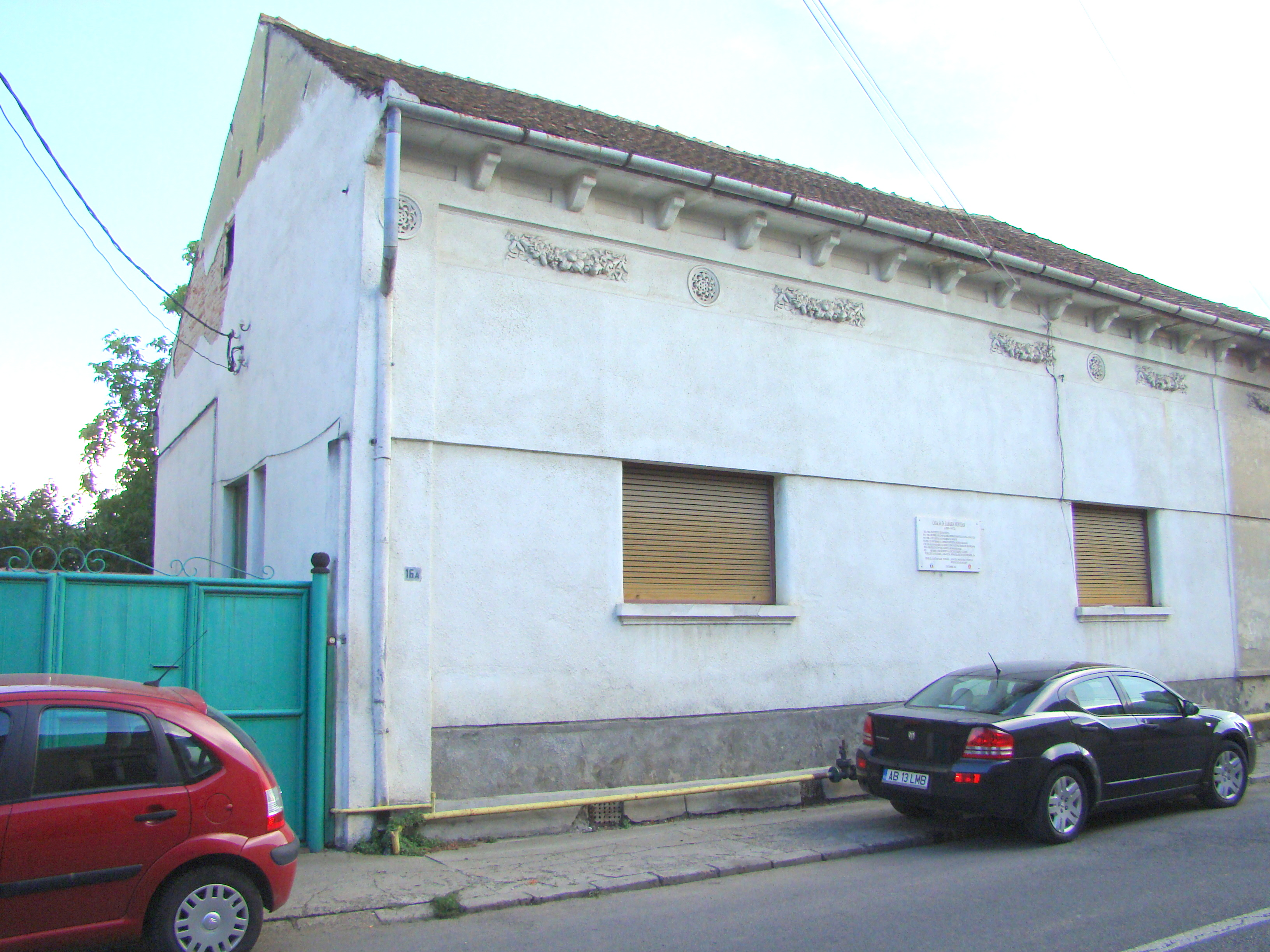 House, historic monument, Primăverii street, number 16, Alba Iulia, Alba county, Romania